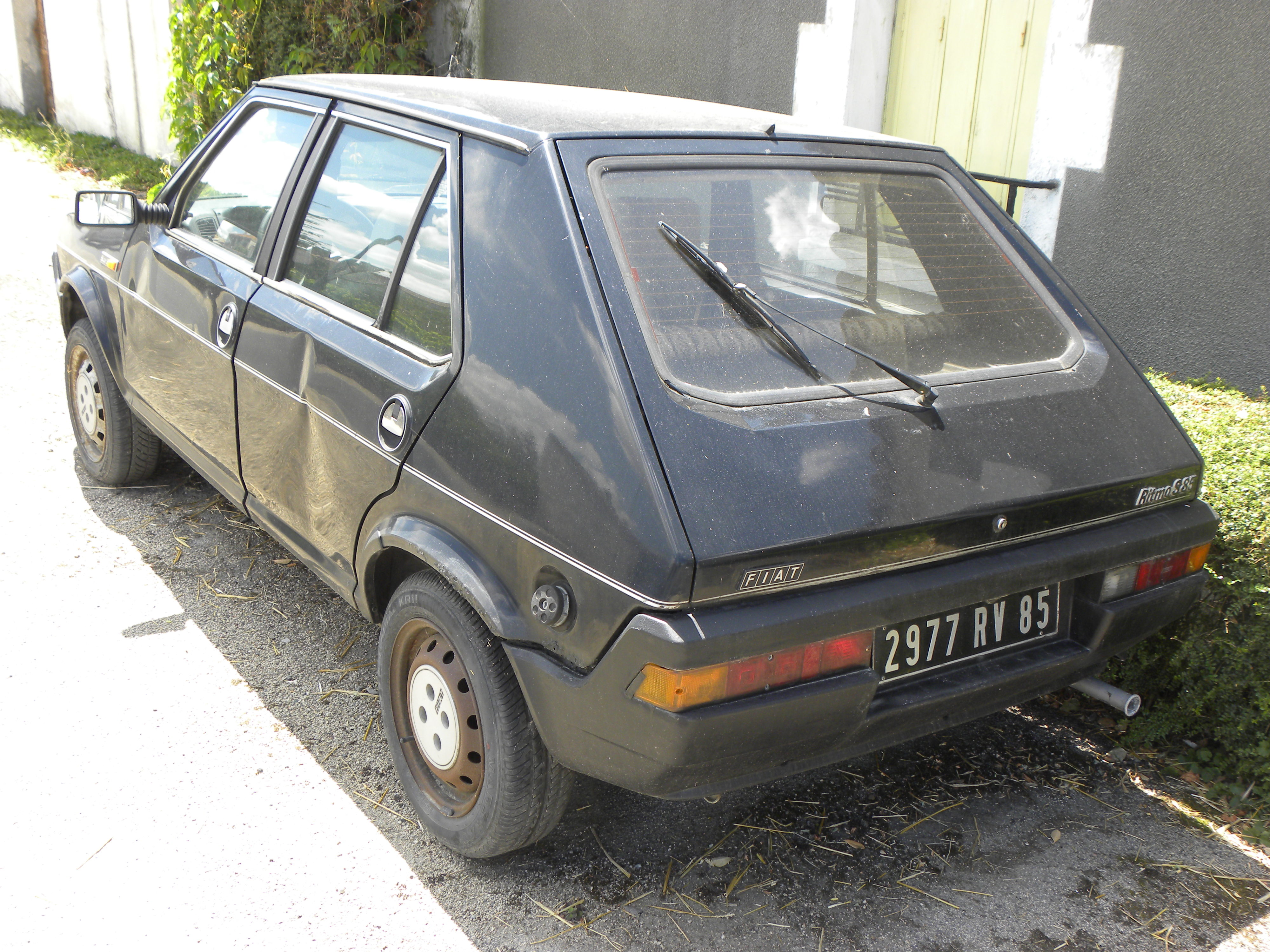 Fiat Ritmo S 85